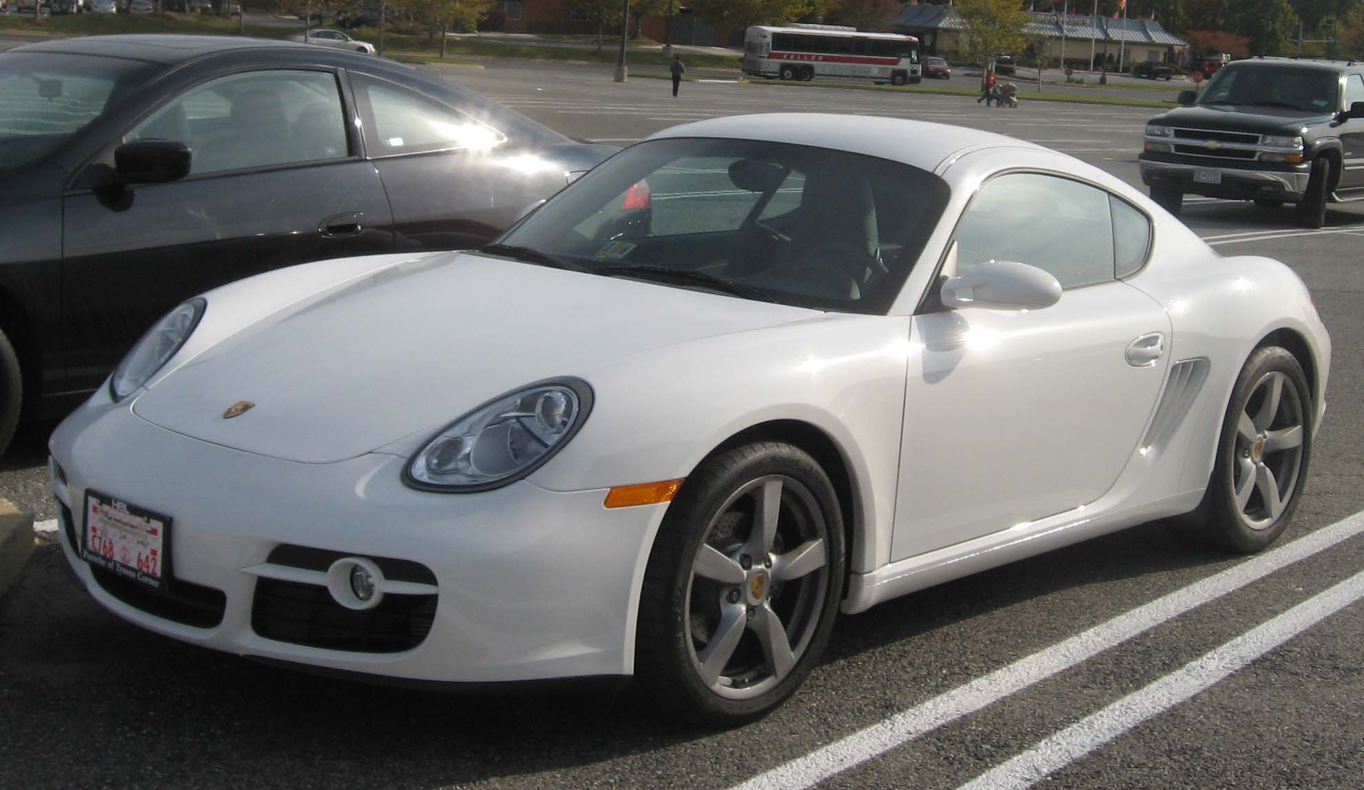 Porsche Cayman photographed in Waldorf, Maryland, USA.